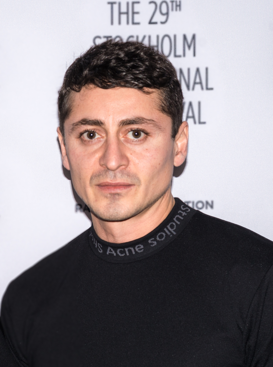 Alexej Manvelov before the award ceremony at the Stockholm International Film Festival on November 16, 2018.